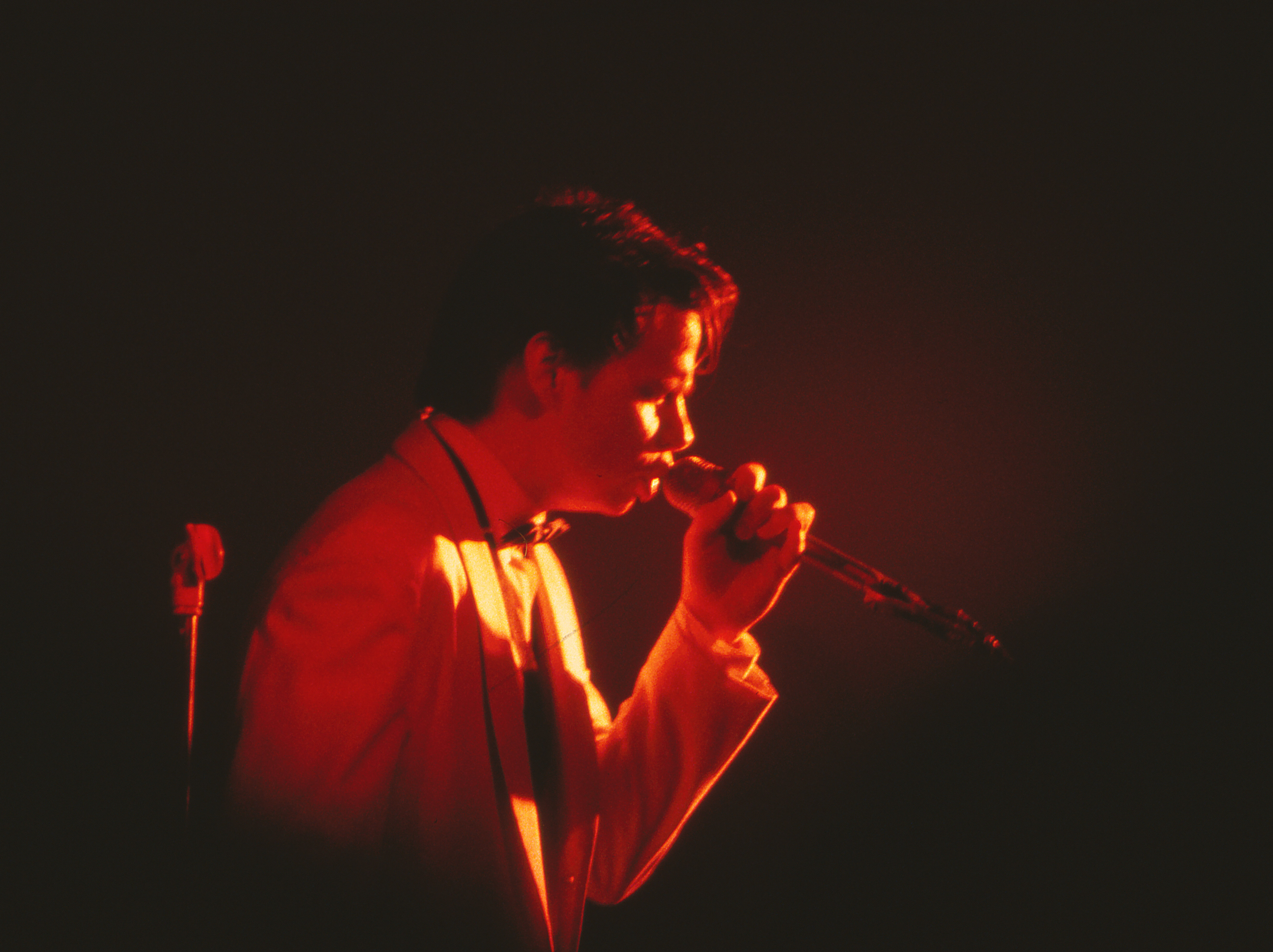 James White & The Contortions, 1981, Berlin: SO 36